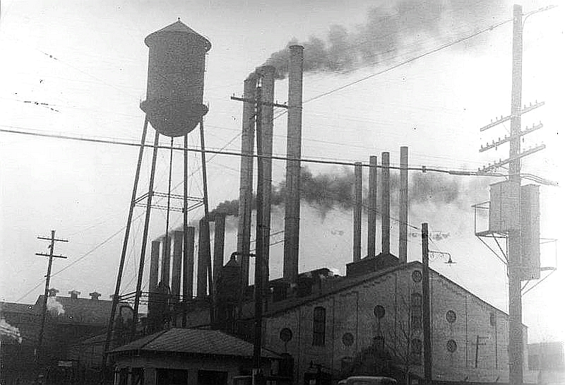 Great Southern Lumber Company in Bogalusa Louisiana in the 1930s